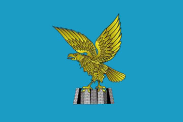 flag of Italian region Friuli-Venezia Giulia